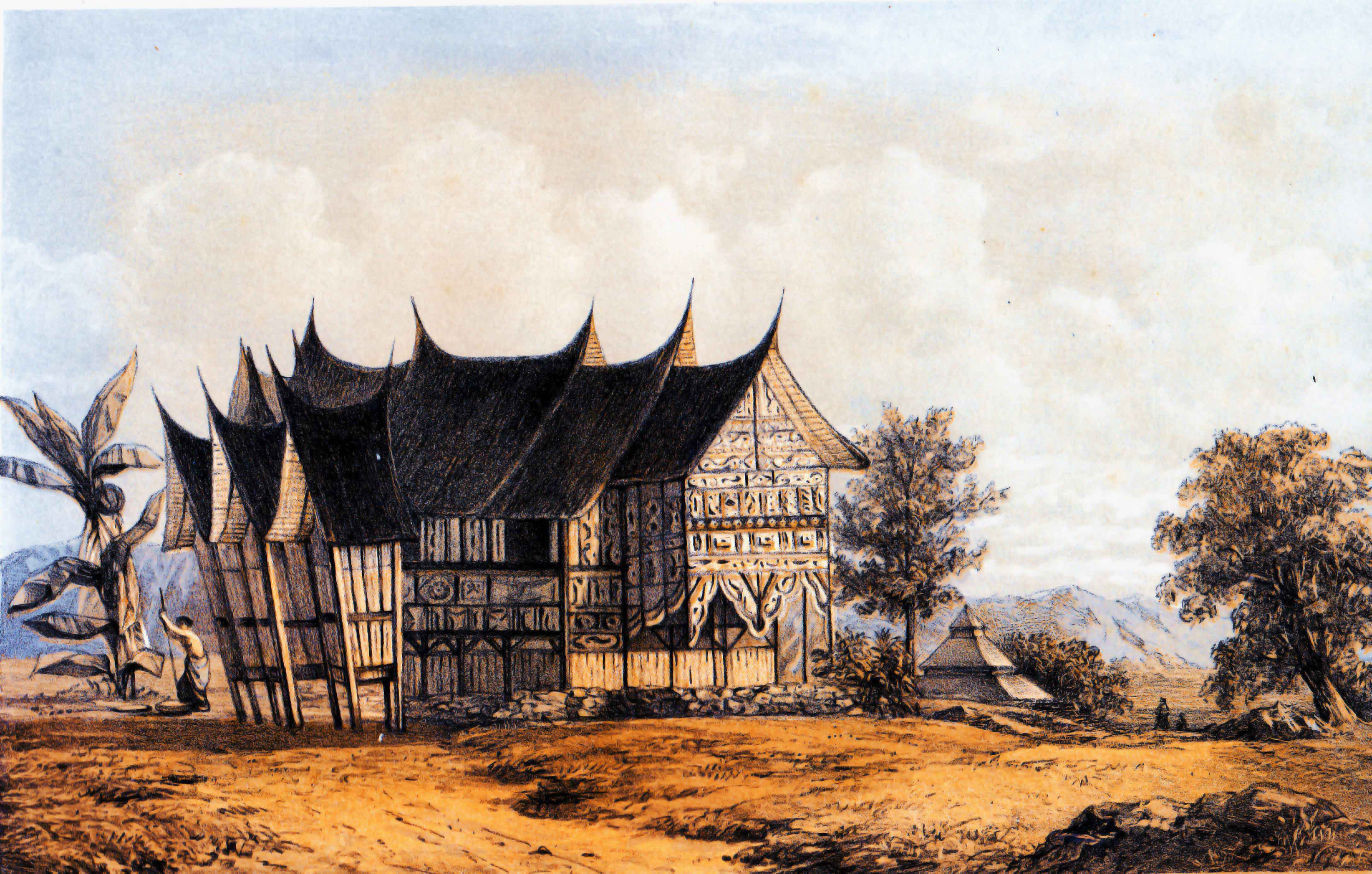 Huis van een hoofd Padangse Bovenlanden